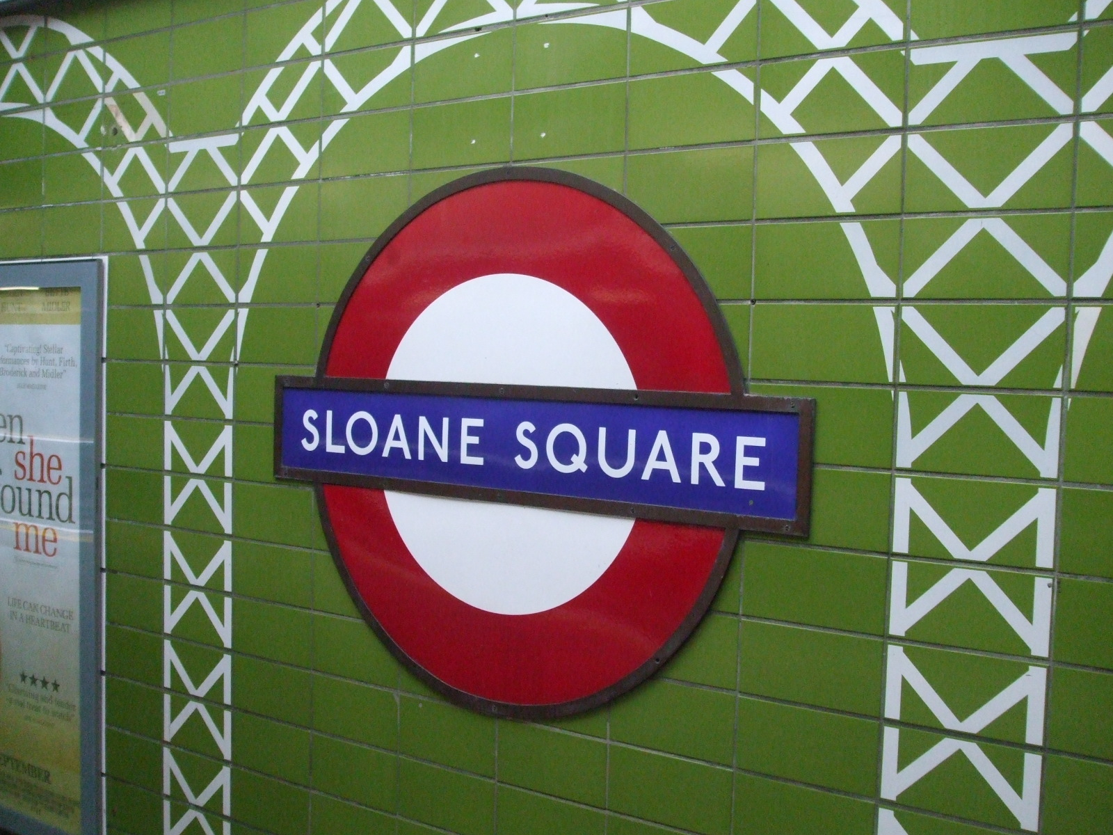 Sloane Square tube station platform roundel